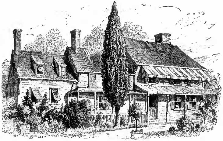 Col. Beverley Robinson's house, opposite West Point, which was occupied by American Revolutionary War turncoat Benedict Arnold as his headquarters. At one time it was the property of Hamilton Fish.